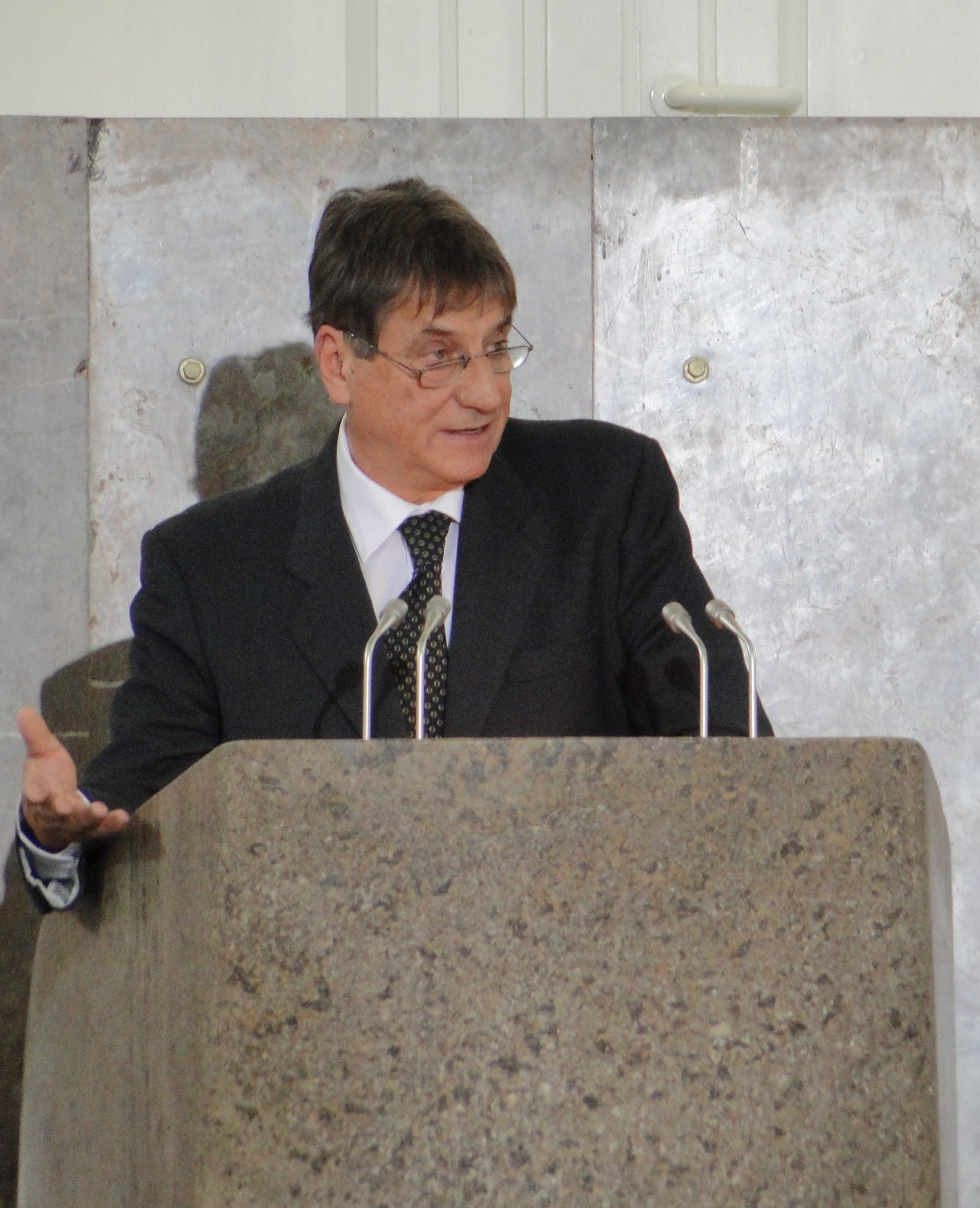 Claudio Magris during his speech at "Paulskirche" in Frankfurt am Main, 2009.